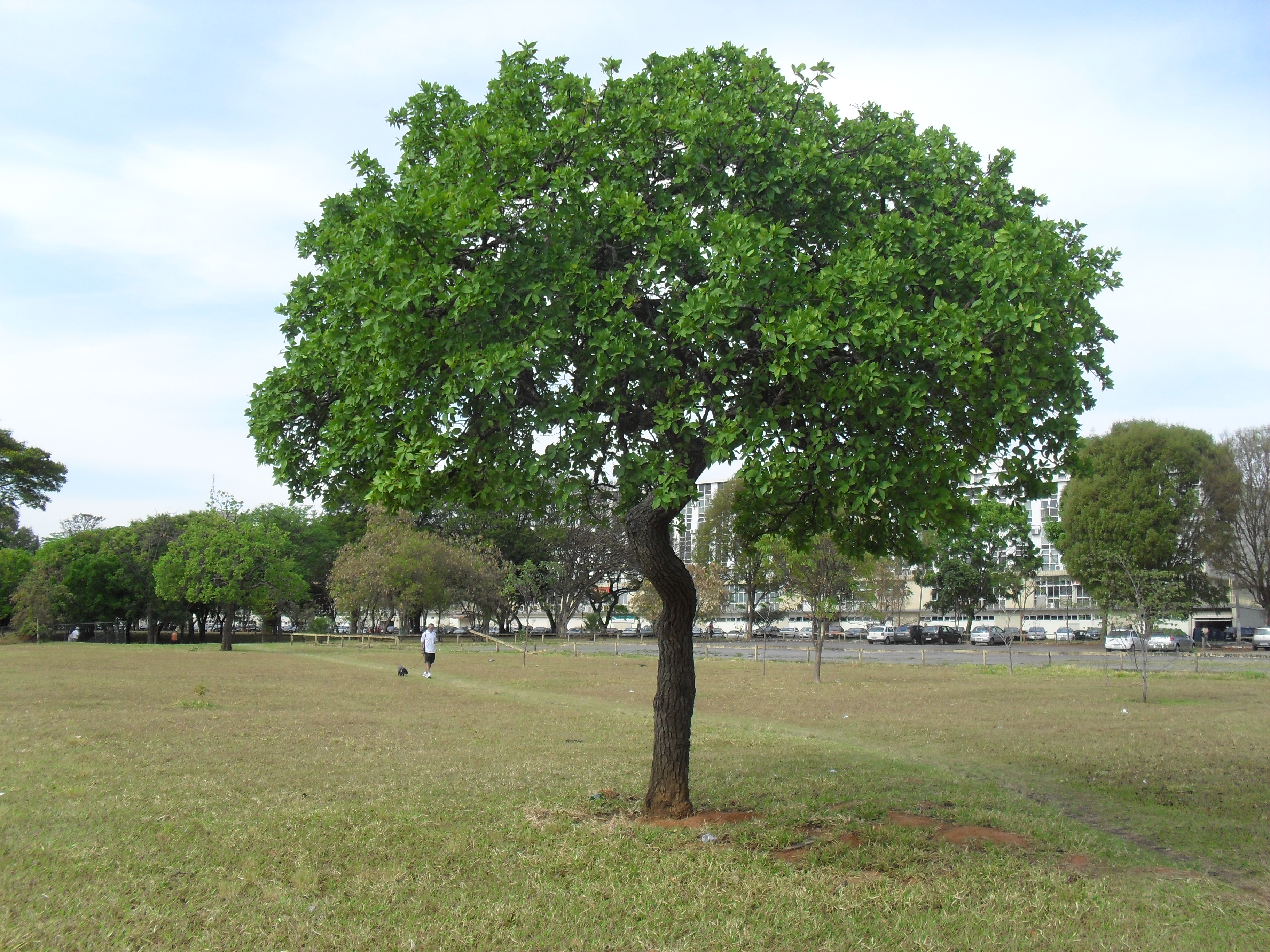 Stenocalyx dysentericus tree